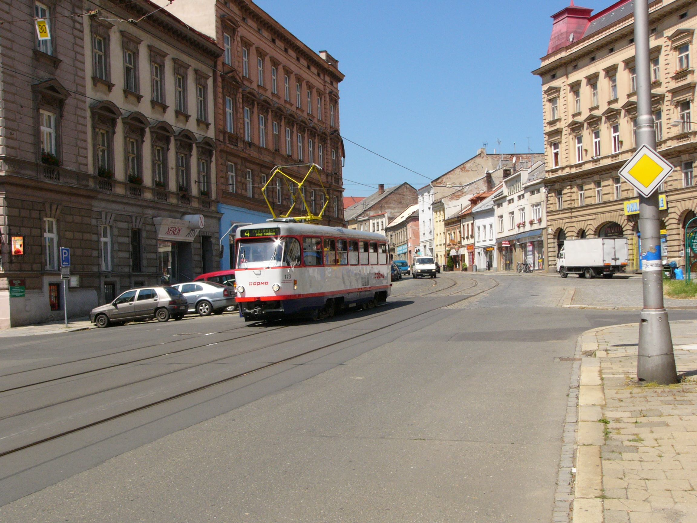 An area of previous Hradská brána gate in Olomouc (Czech Republic). The gate was in the area where are ending small houses and starting large apartment houses.